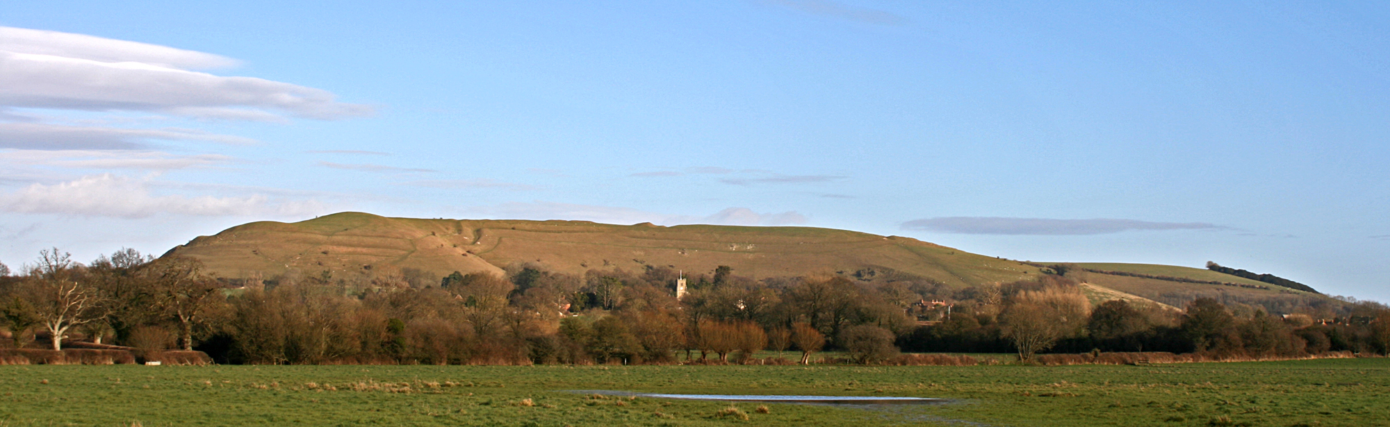 Hambledon Hill and Child Okeford in the early March sunshine from Netmead field, Dorset, England, UK.